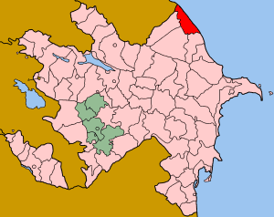 Map of Azerbaijan showing Khachmaz (Xaçmaz) rayon.